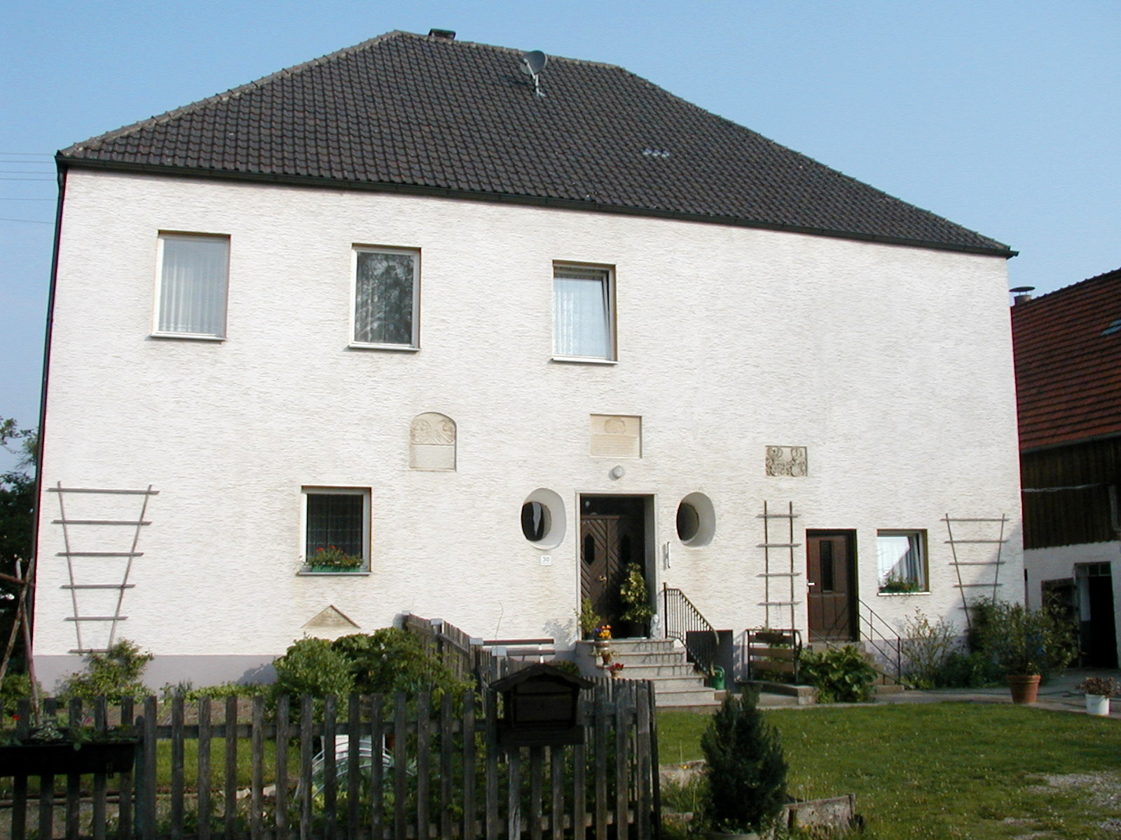 Former water castle in Gansheim.